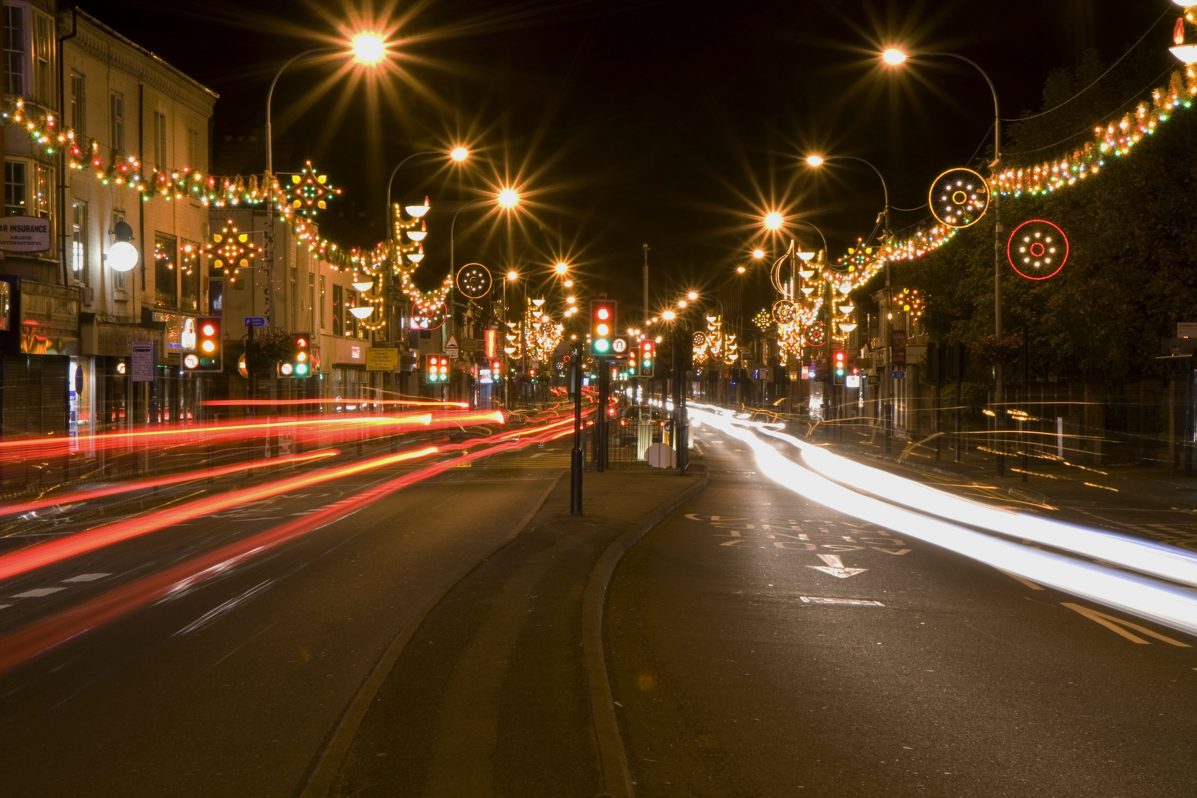 Diwali is celebrated in many parts of the world outside South Asia. The Diwali lights on Belgrave Road, Leicester, England, United Kingdom